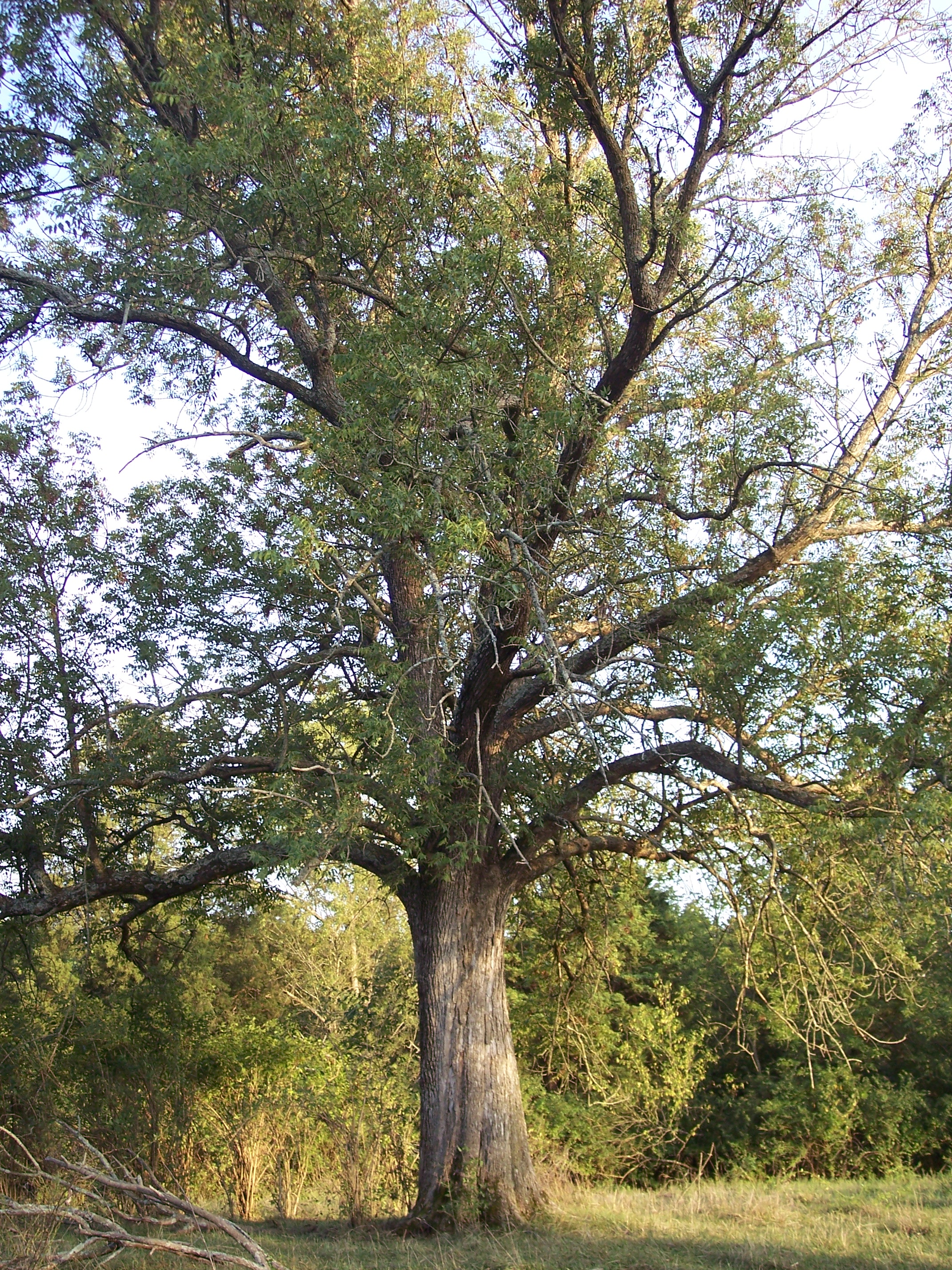 Blue ash (Fraxinus quadrangulata) form. Near Townsend Creek, Harrison County, Kentucky.